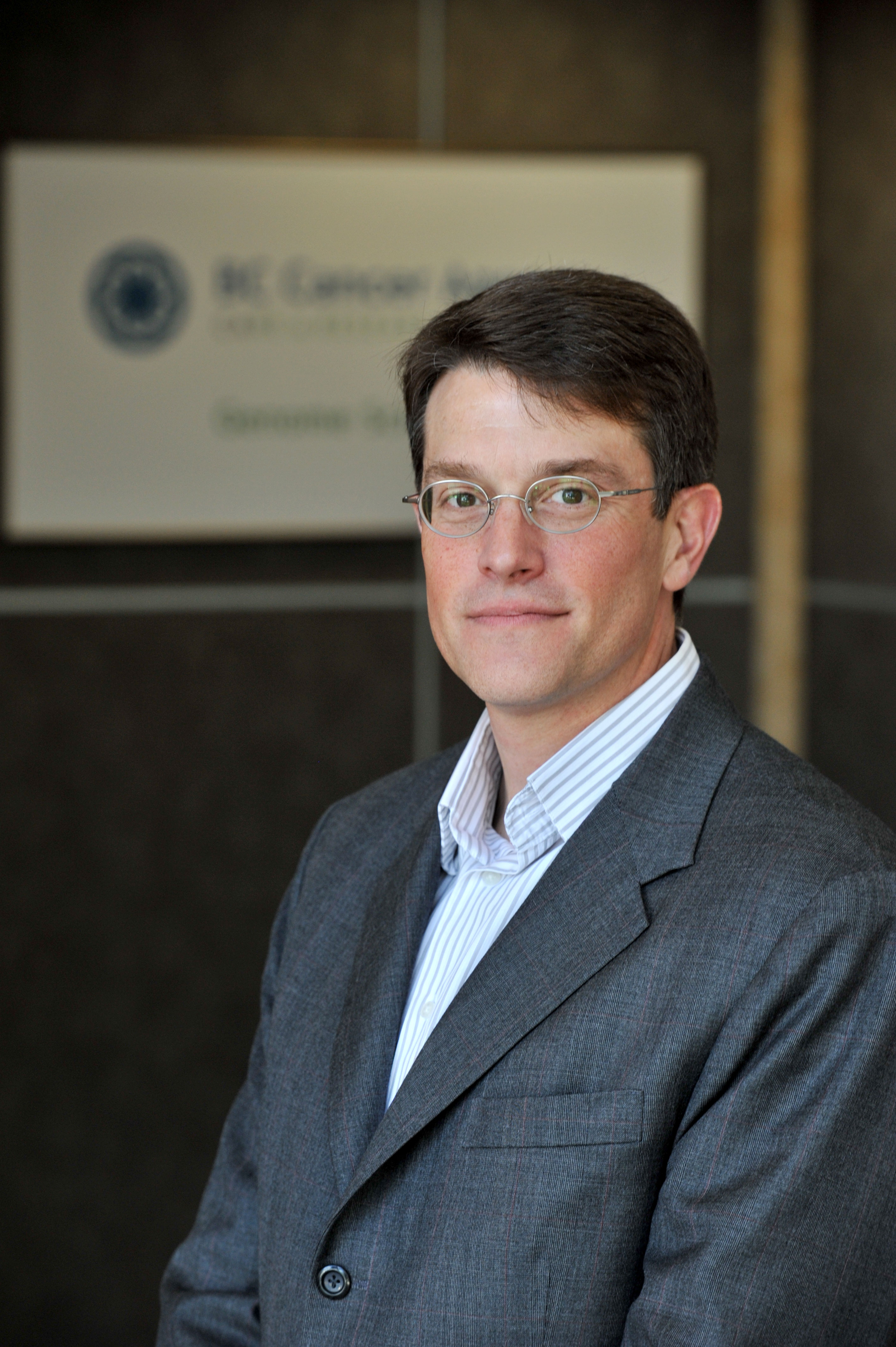 Marco Marra in 2014